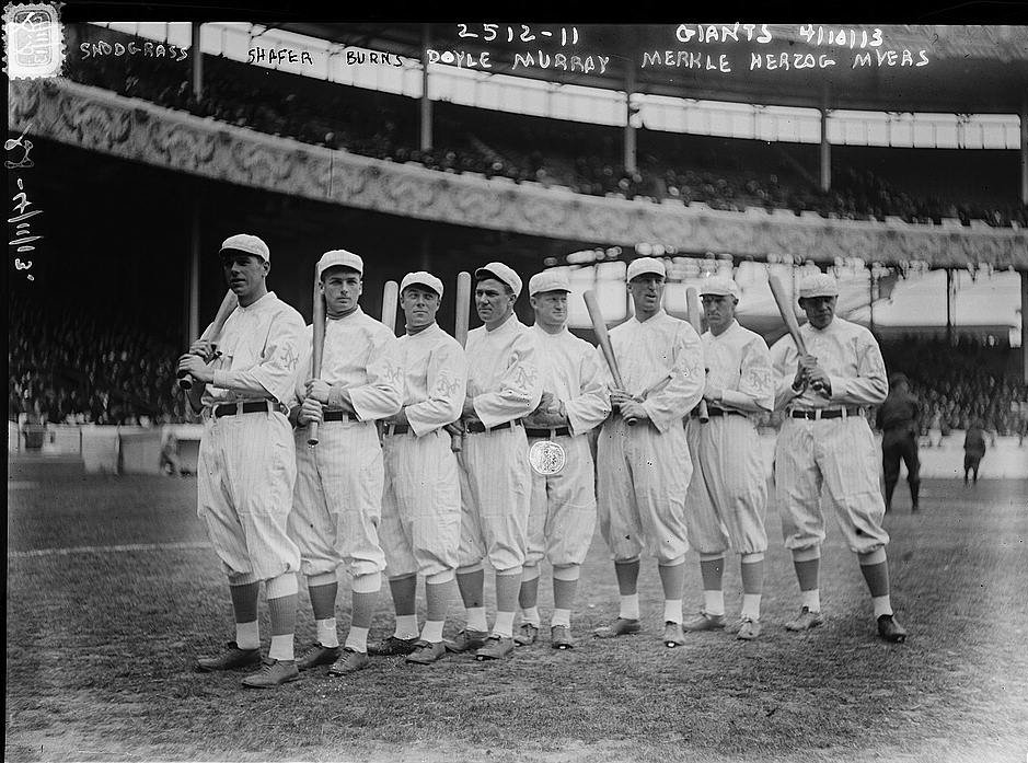 New York Giants Opening Day line-up at the Polo Grounds [New York]. Left to right: Fred Snodgrass, Tillie Shafer, George Burns, Larry Doyle, Red Murray, Fred Merkle, Buck Herzog, Chief Meyers (baseball). Negative : glass ; 5 x 7 in. or smaller.[1]